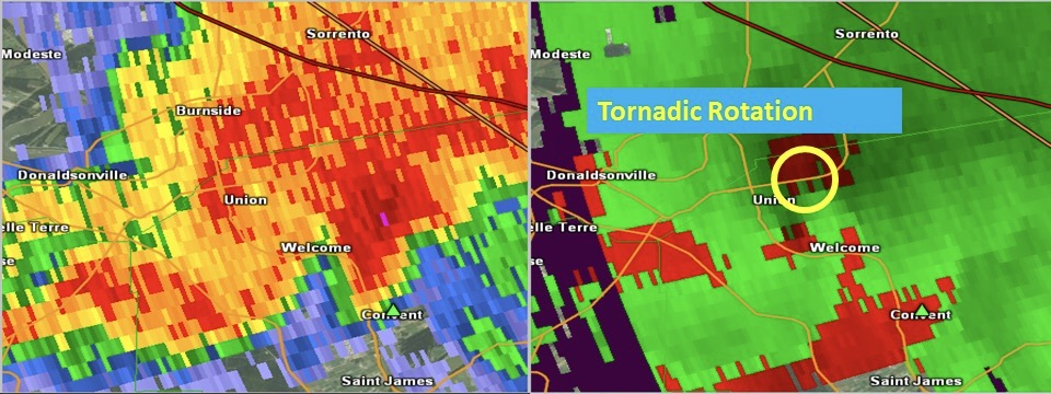 Radar image of the supercell responsible for the EF3 Convent, Louisiana tornado on February 23, 2016.